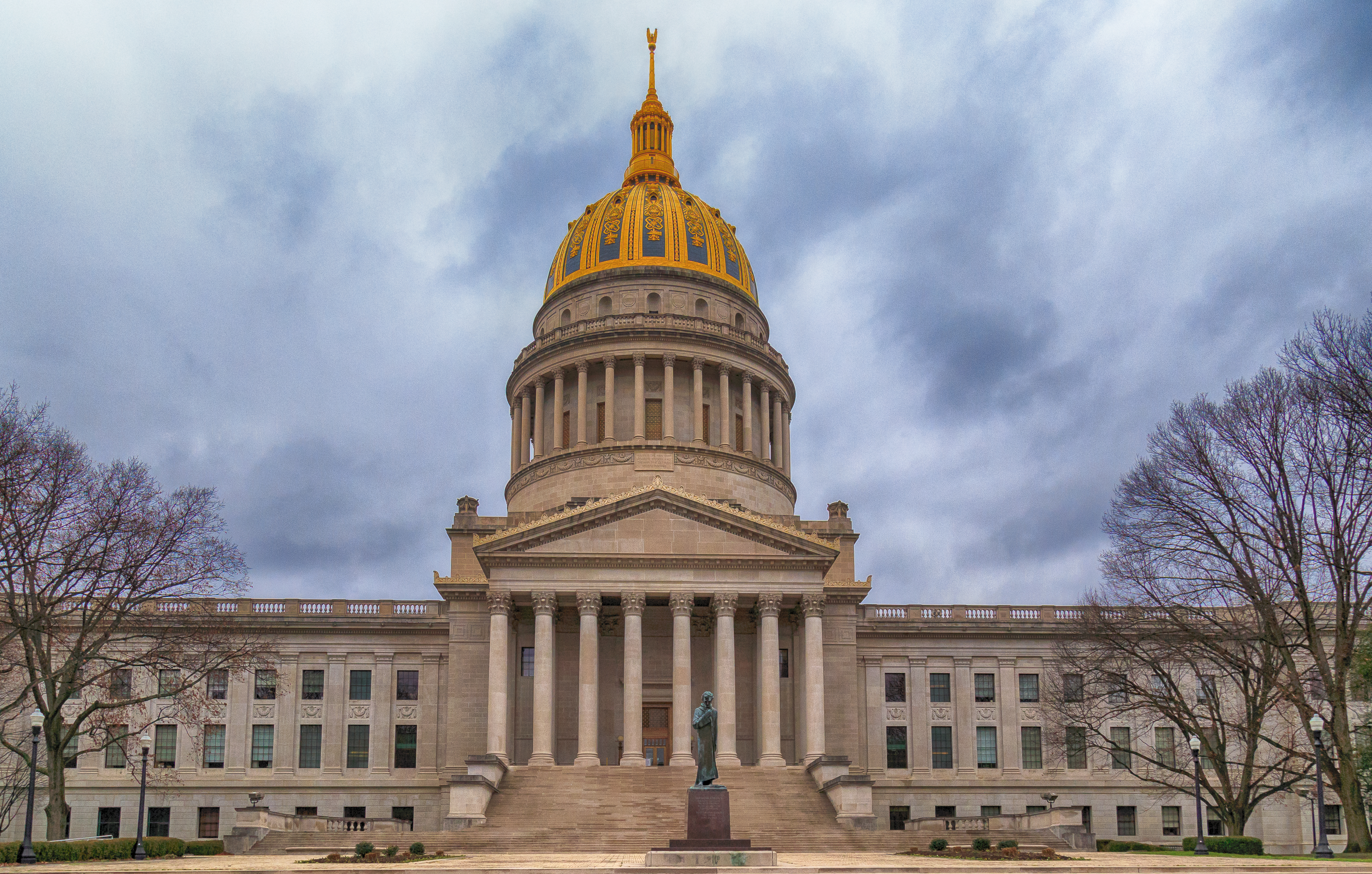 West Virginia State Capitol